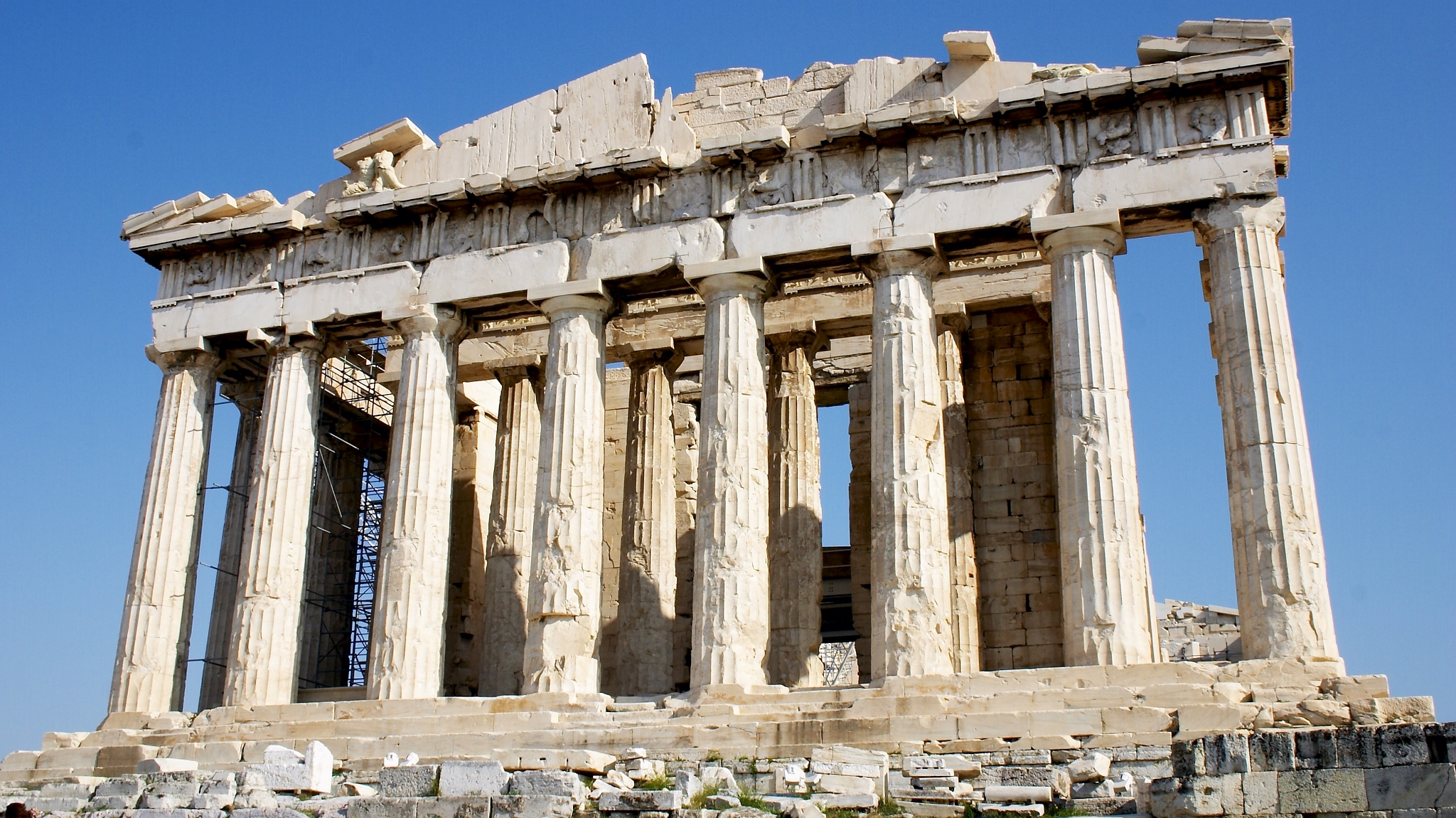 The parthenon being restored.